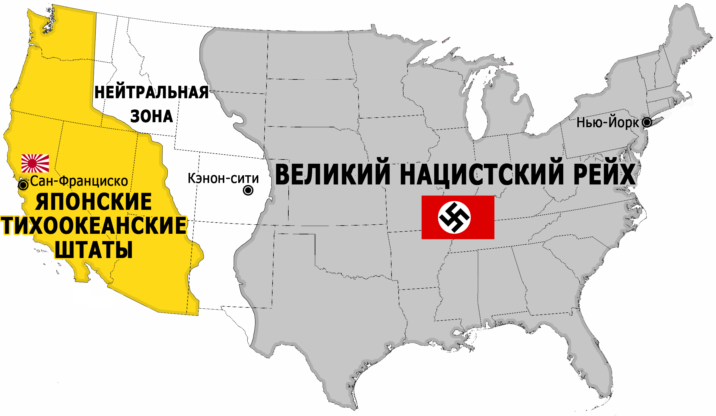 Man in the High Castle map, in Russian